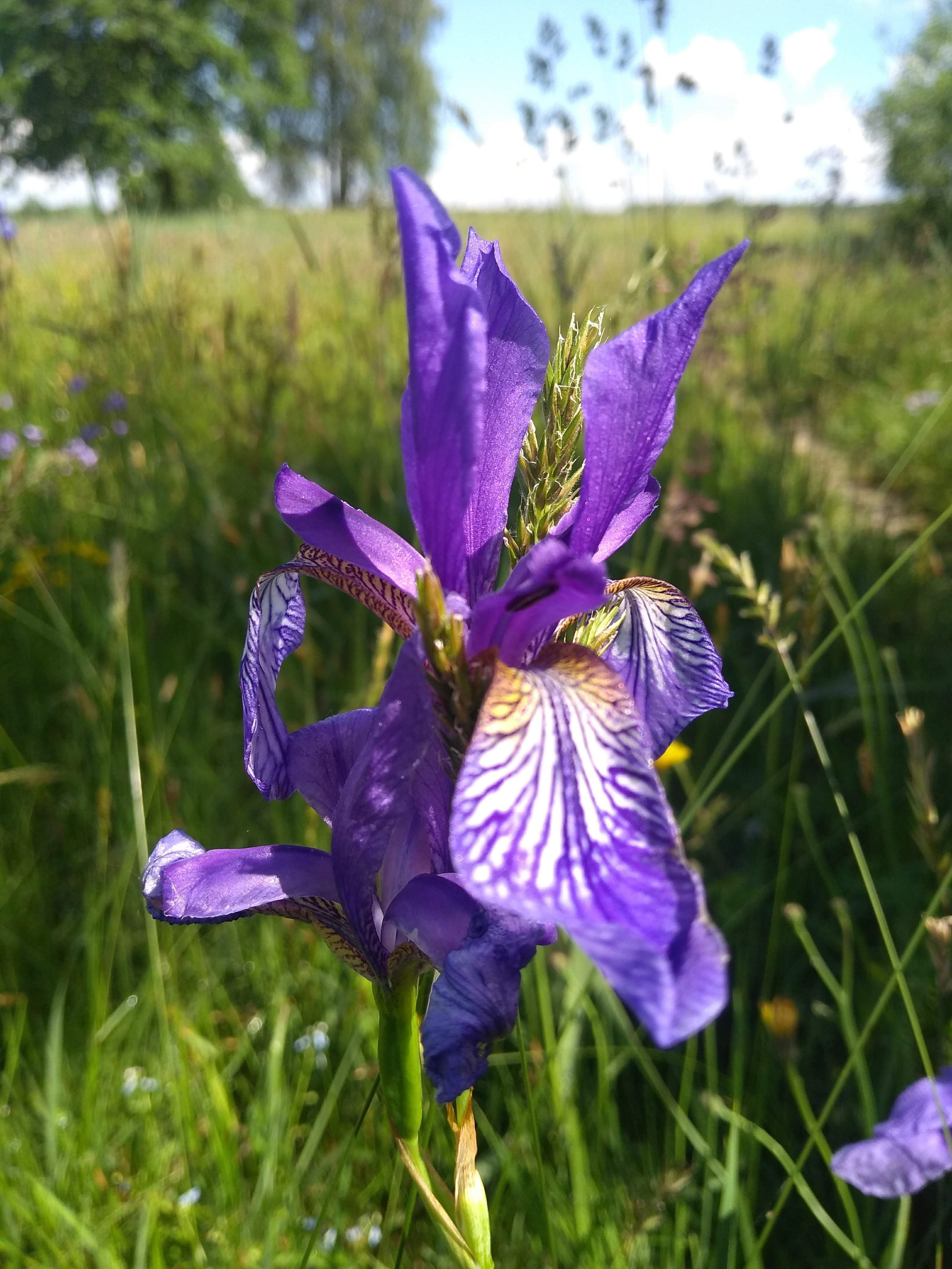 Iris sibirica